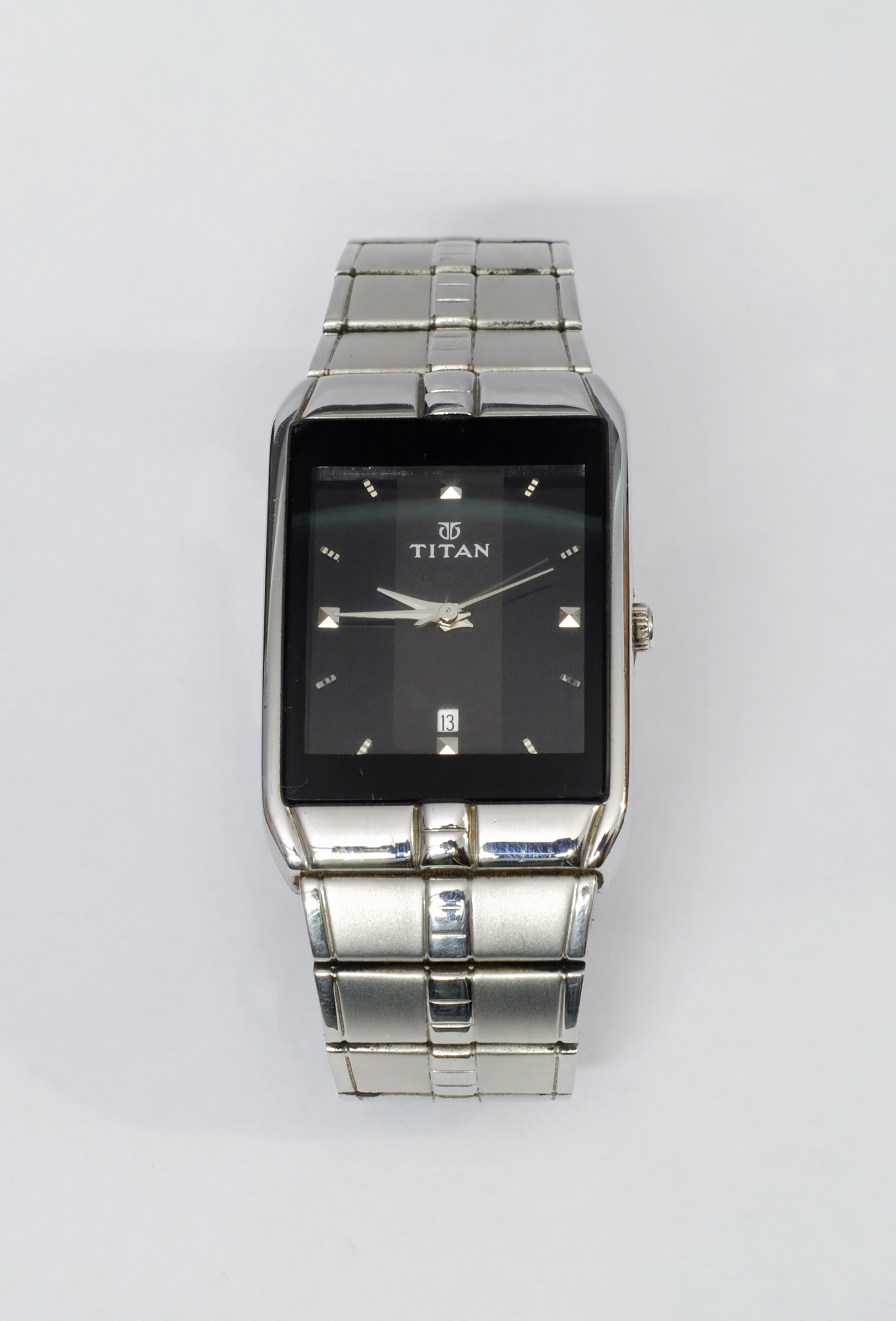 A wrist watch from TITAN